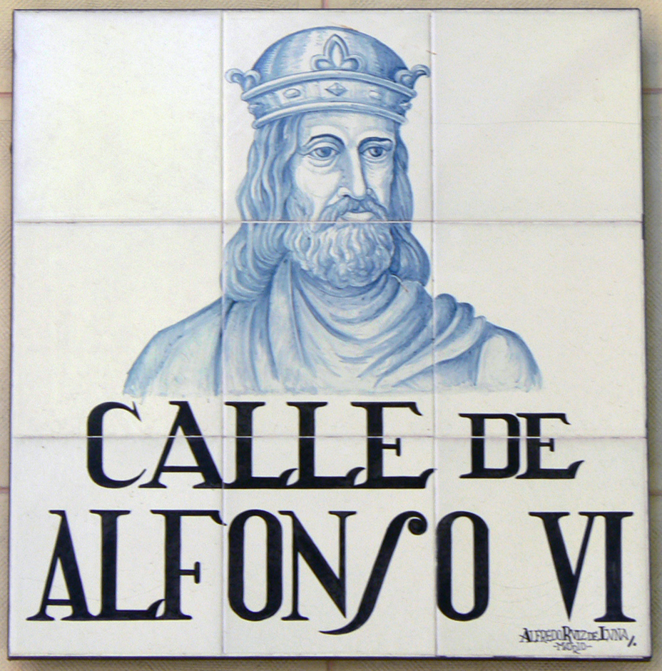 Sign of Calle de Alfonso VI (street, Centro district) in Madrid (Spain).